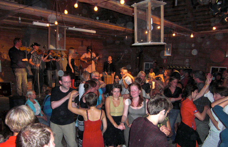 Sågskära at Korrö Folkmusikfestival 2008 in Småland, Sweden.